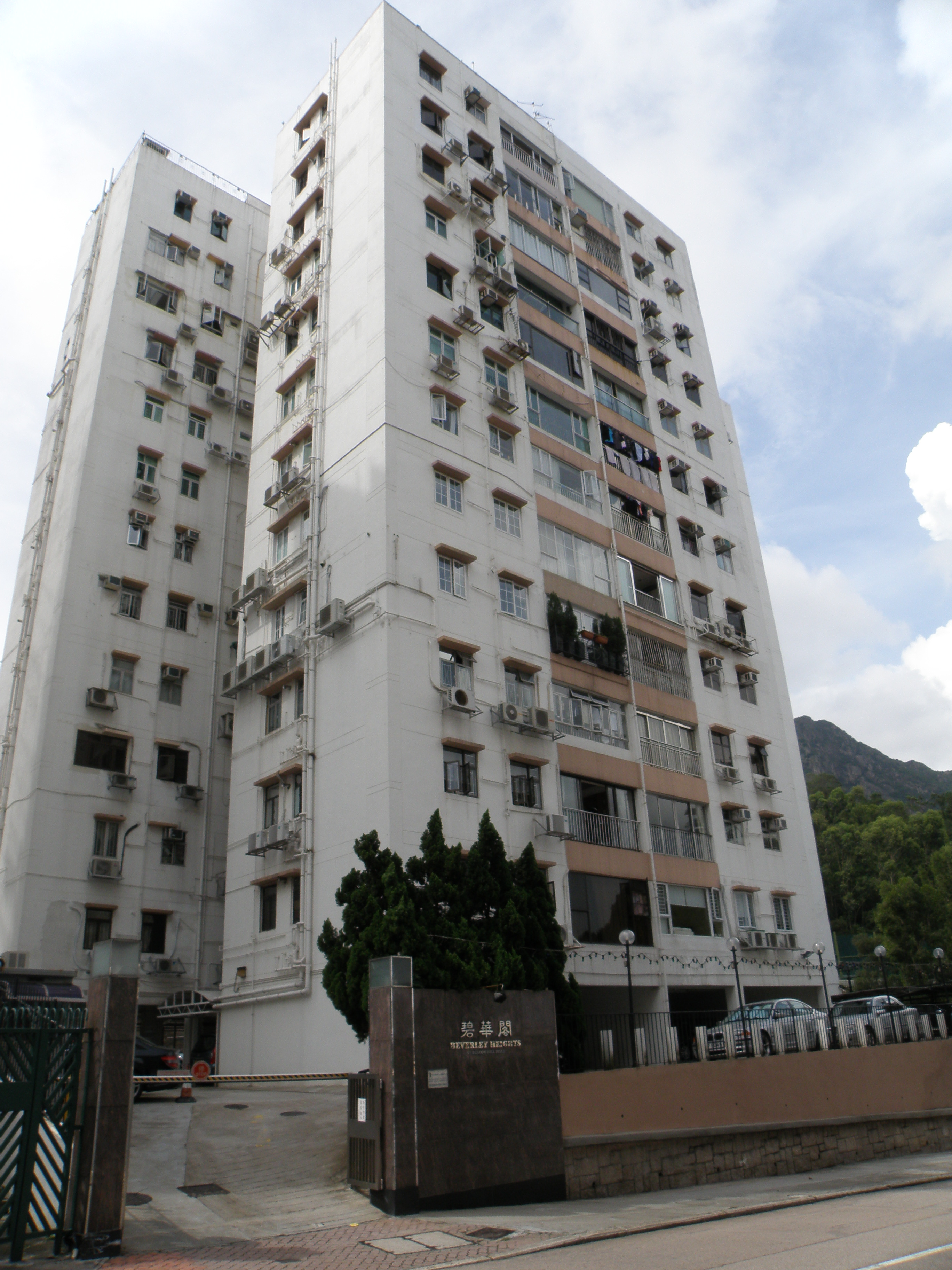 Beverley Heights in Beacon Hill, Hong Kong.